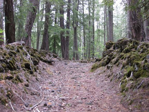 Segment of the Santiam Wagon Road in Willamette National Forest, Oregon, United States. This segment lies within Linn County.